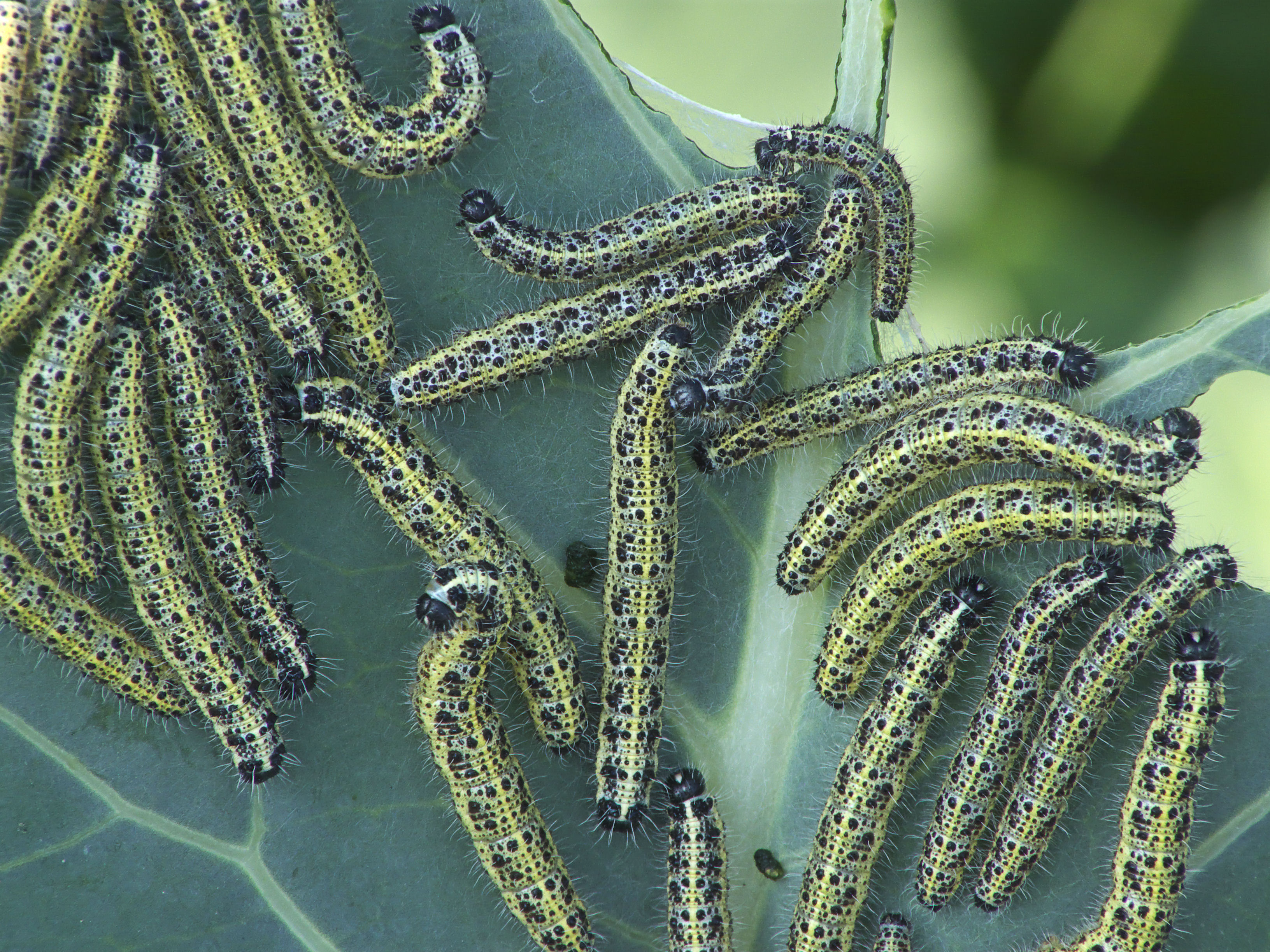 Pieris brassicae caterpillars